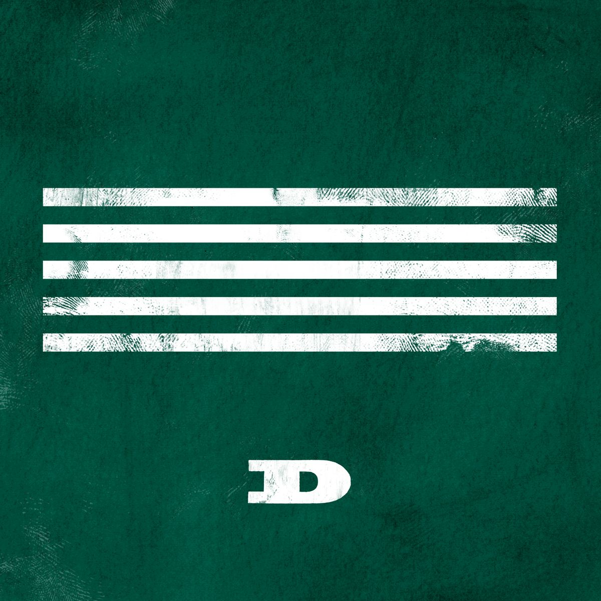 Green Cover of single D by Big Bang